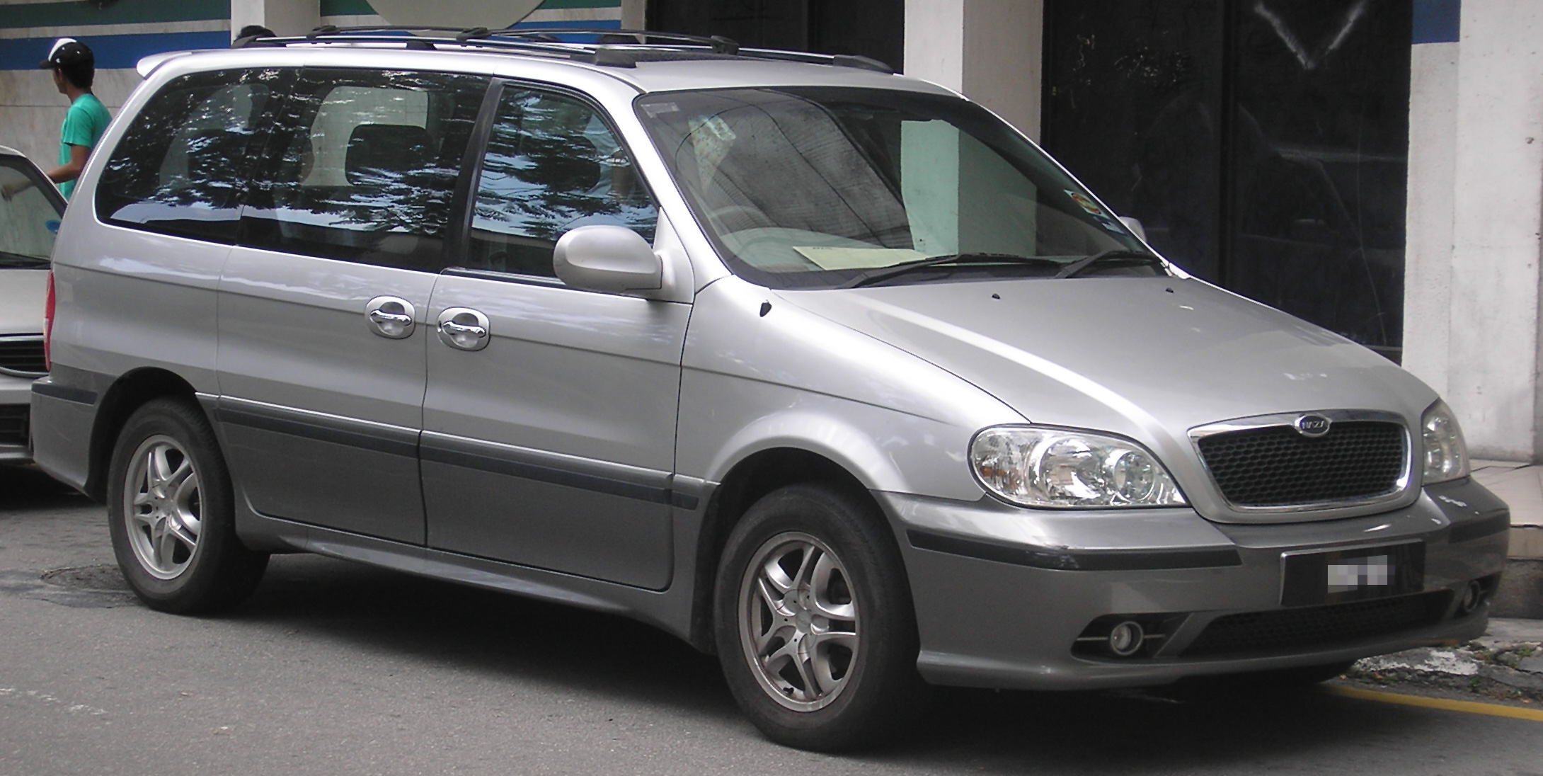 Front quarter view of a first generation Naza Ria (essentially a rebadged Kia Carnival/Sedona) in Bukit Bintang, Kuala Lumpur, Malaysia.